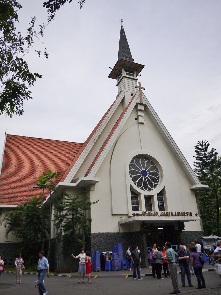 Church of St Theresia, Jakarta This photo was taken on April 9, 2011 in Gondangdia, Jakarta, DKI Jakarta, ID, using a Panasonic DMC-GF1.